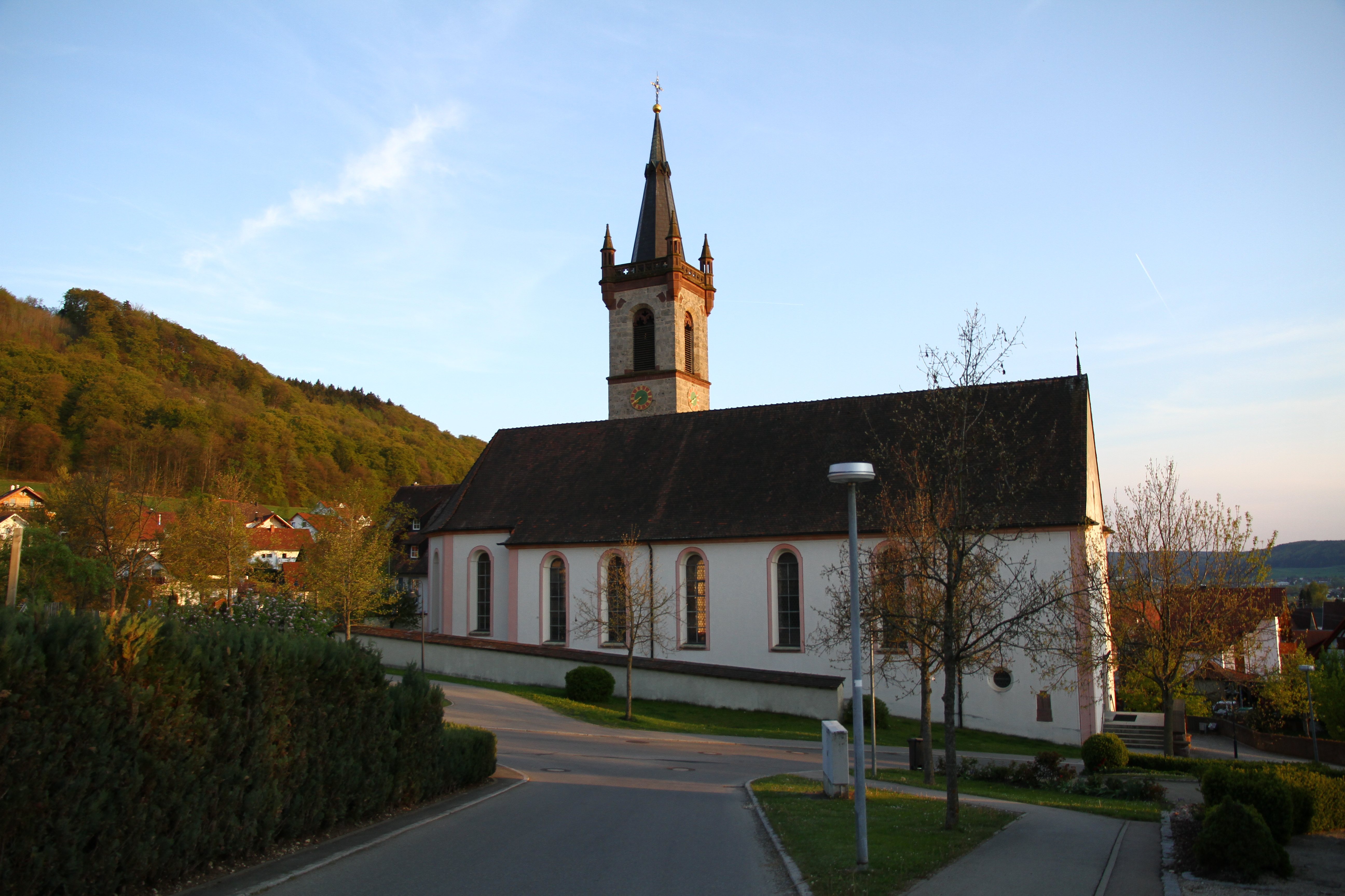 Kirche St. Peter und Paul (Dürbheim)